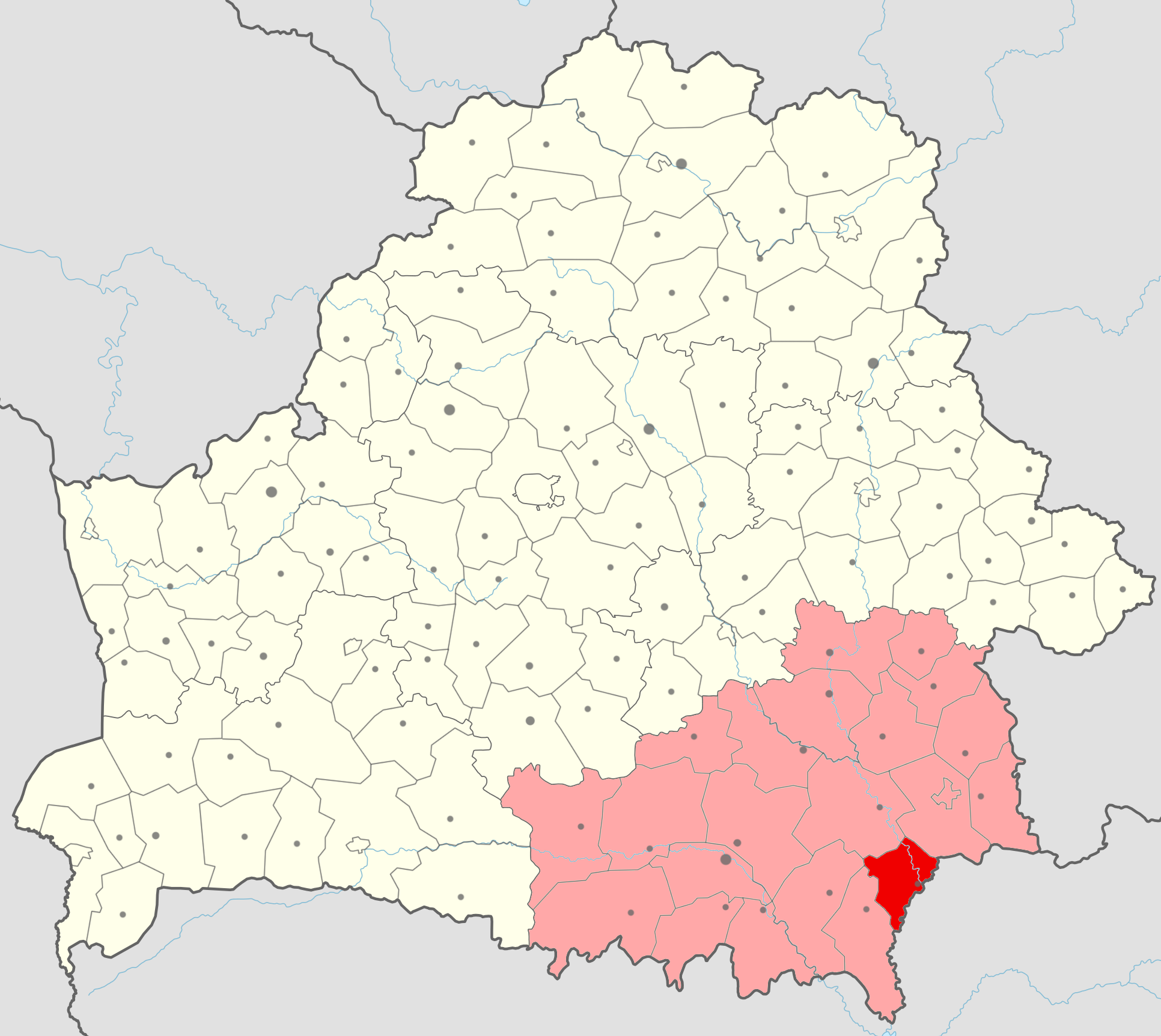 Location of Lojeŭski rajon (red) in Homieĺskaja voblasć (light red) in Belarus.